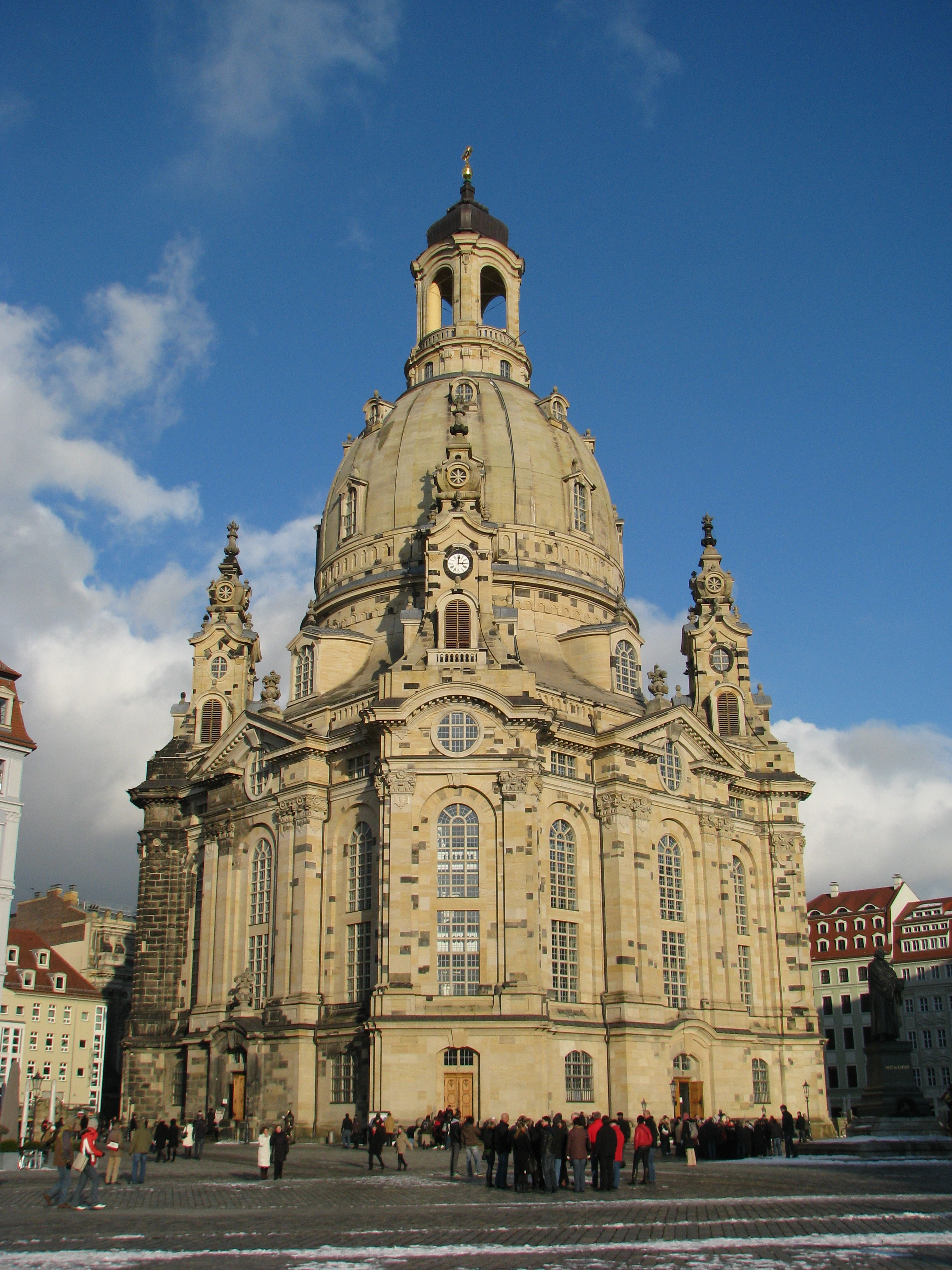 Dresden, Germany, rebuilt Frauenkirche in winter with blue sky